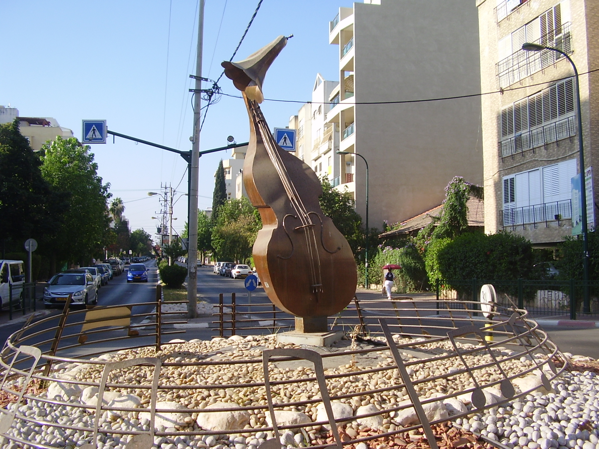 Cello square in Petah Tikva, Israel